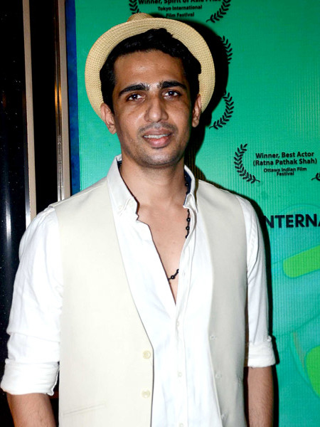 Gulshan Devaiya at a special screening of Lipstick Under My Burkha.